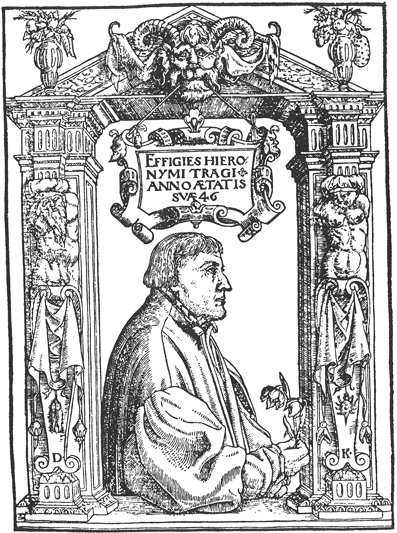 The likeness of Jerome Bock in the 46th year of his age